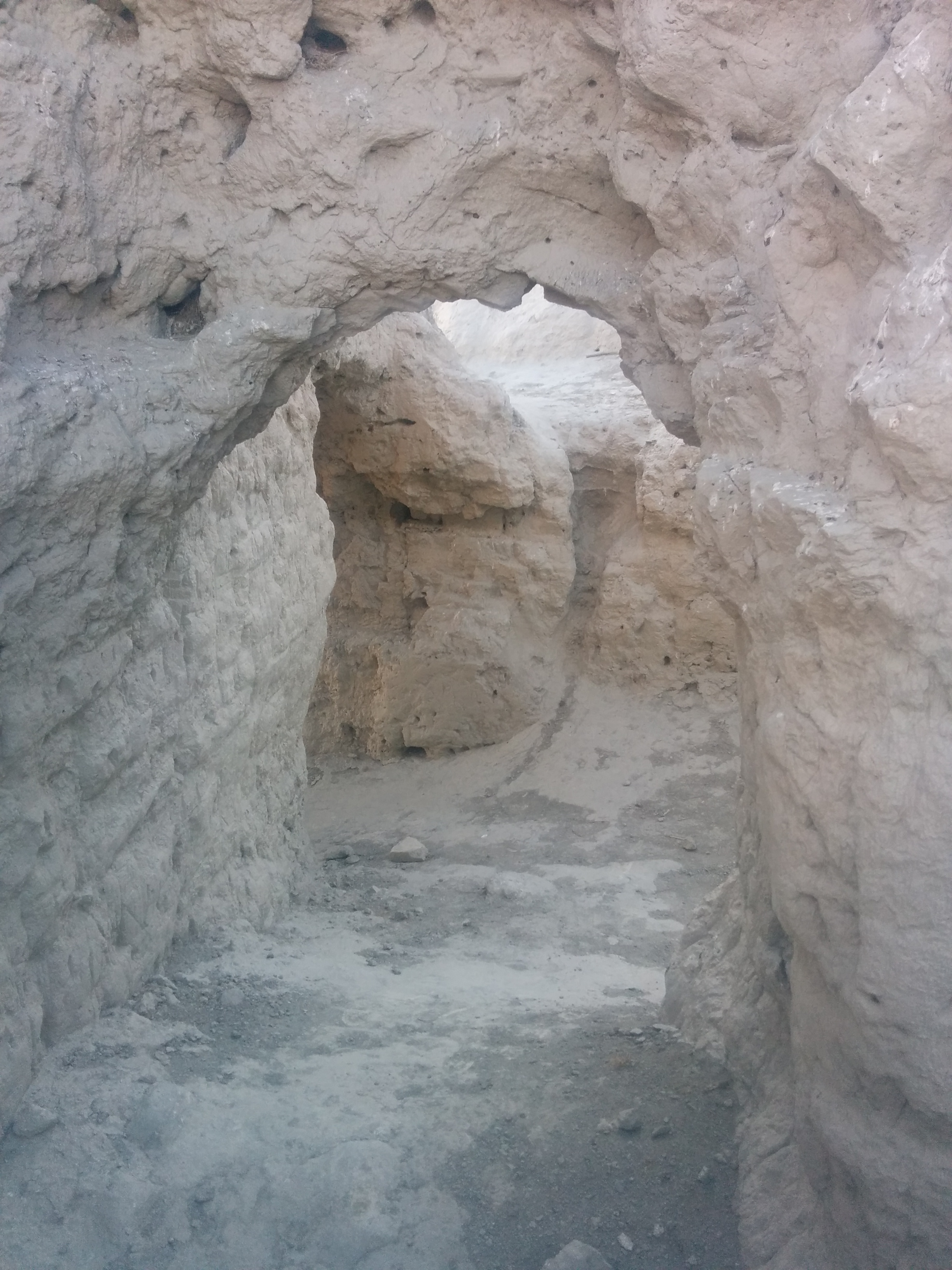 Varaxsha ruins